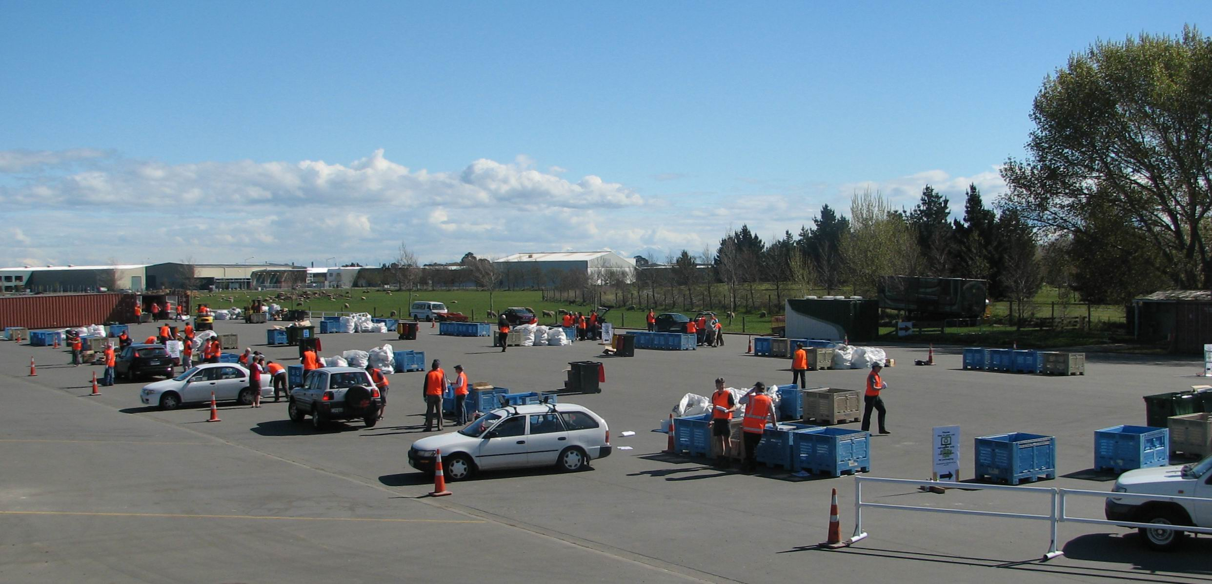 A view of most of the collection area for electronic waste in Christchurch, New Zealand on eDay in 2009. It was held at the Canterbury Agricultural Park.